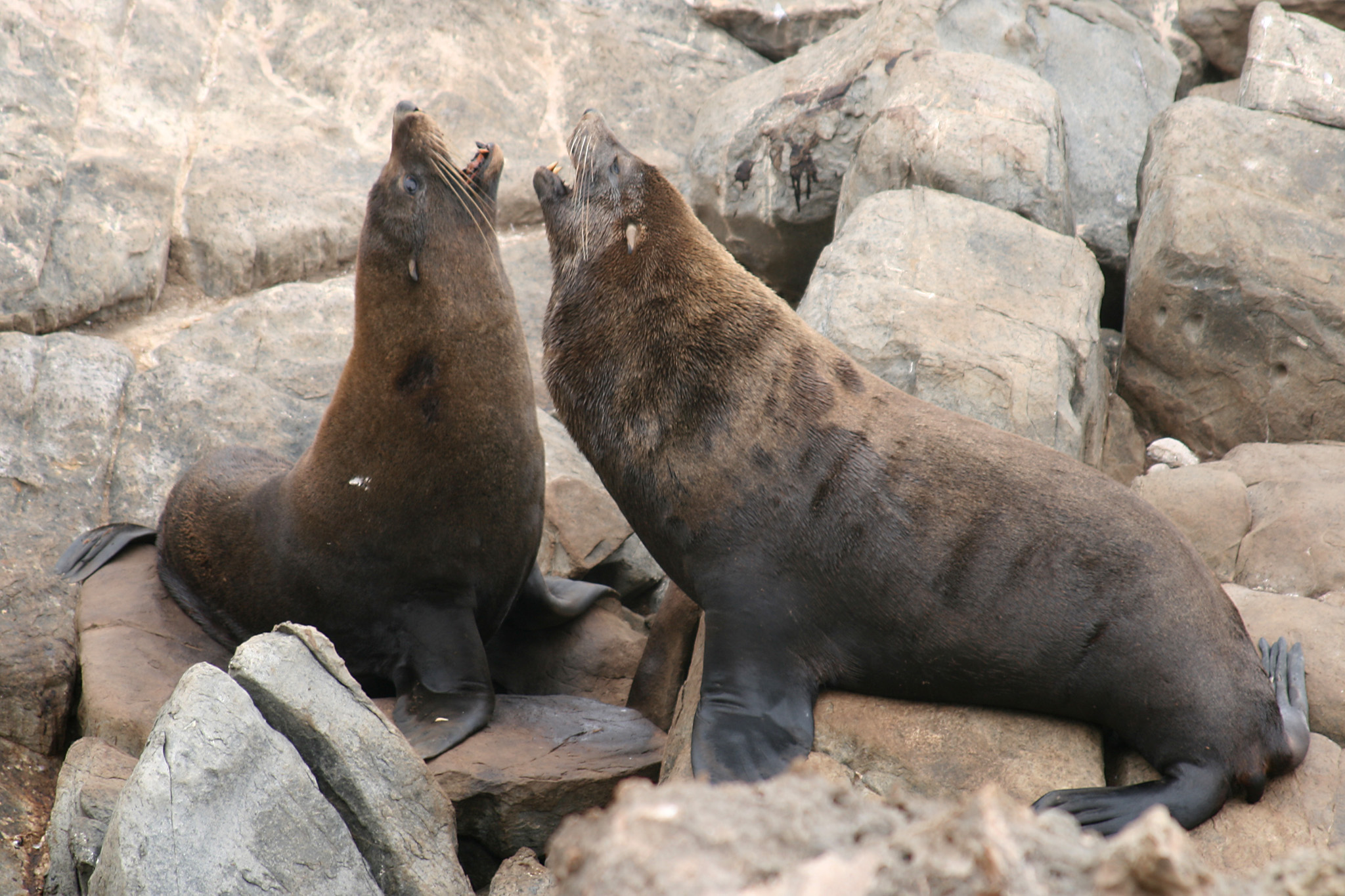 New Zealand Fur Seals